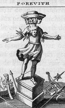 Porewit